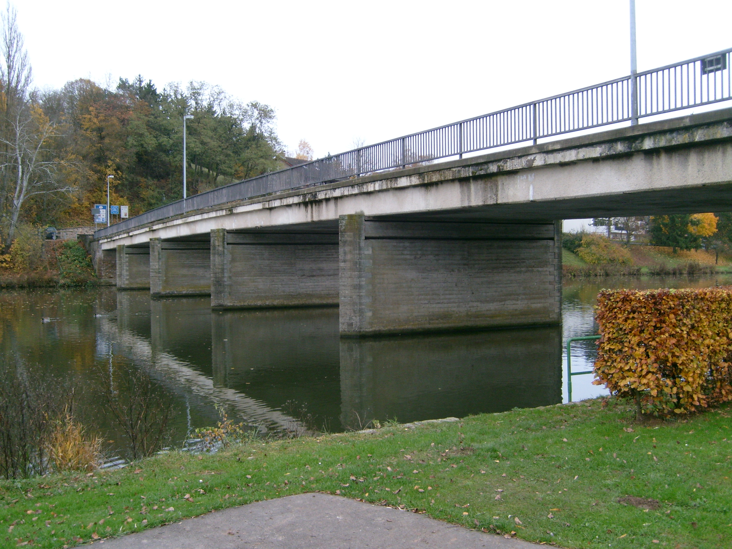 Bridge of Rosport, Luxembourg.